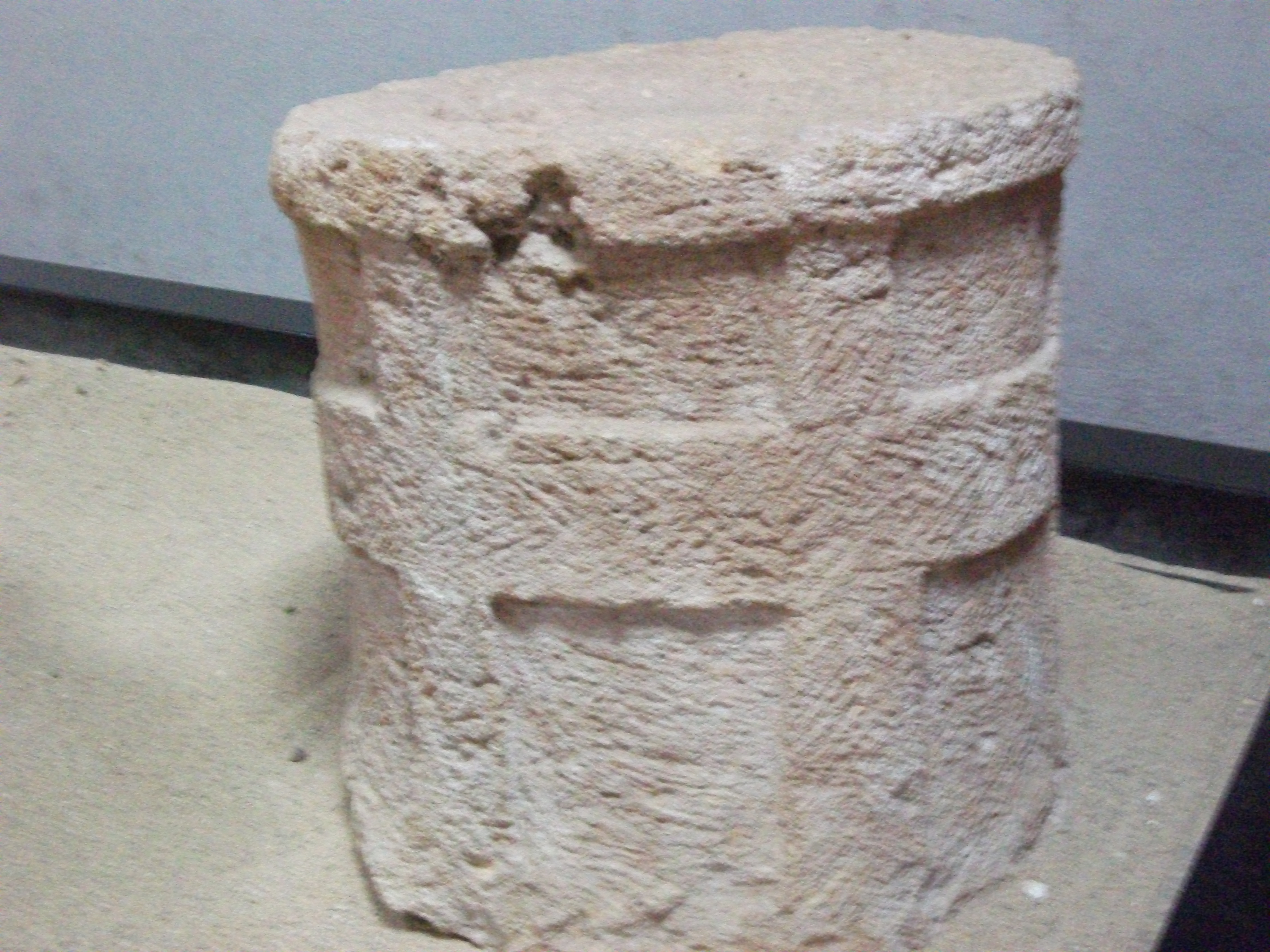 Sculpture, Giant of Monte Prama, Sardinia, Italy, Nuragic civilization,archaeology, bronze age, sea peoples,prehistory